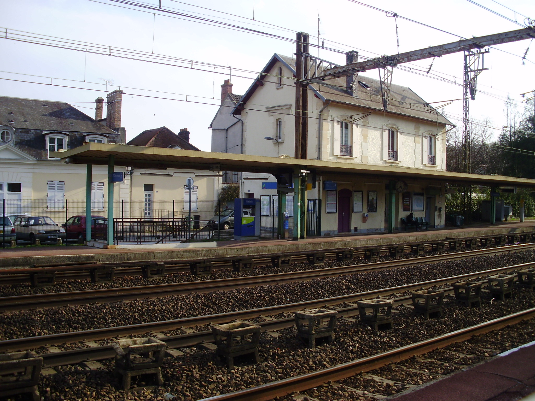 Chamarande station view from the opposite platform, Essonne, France